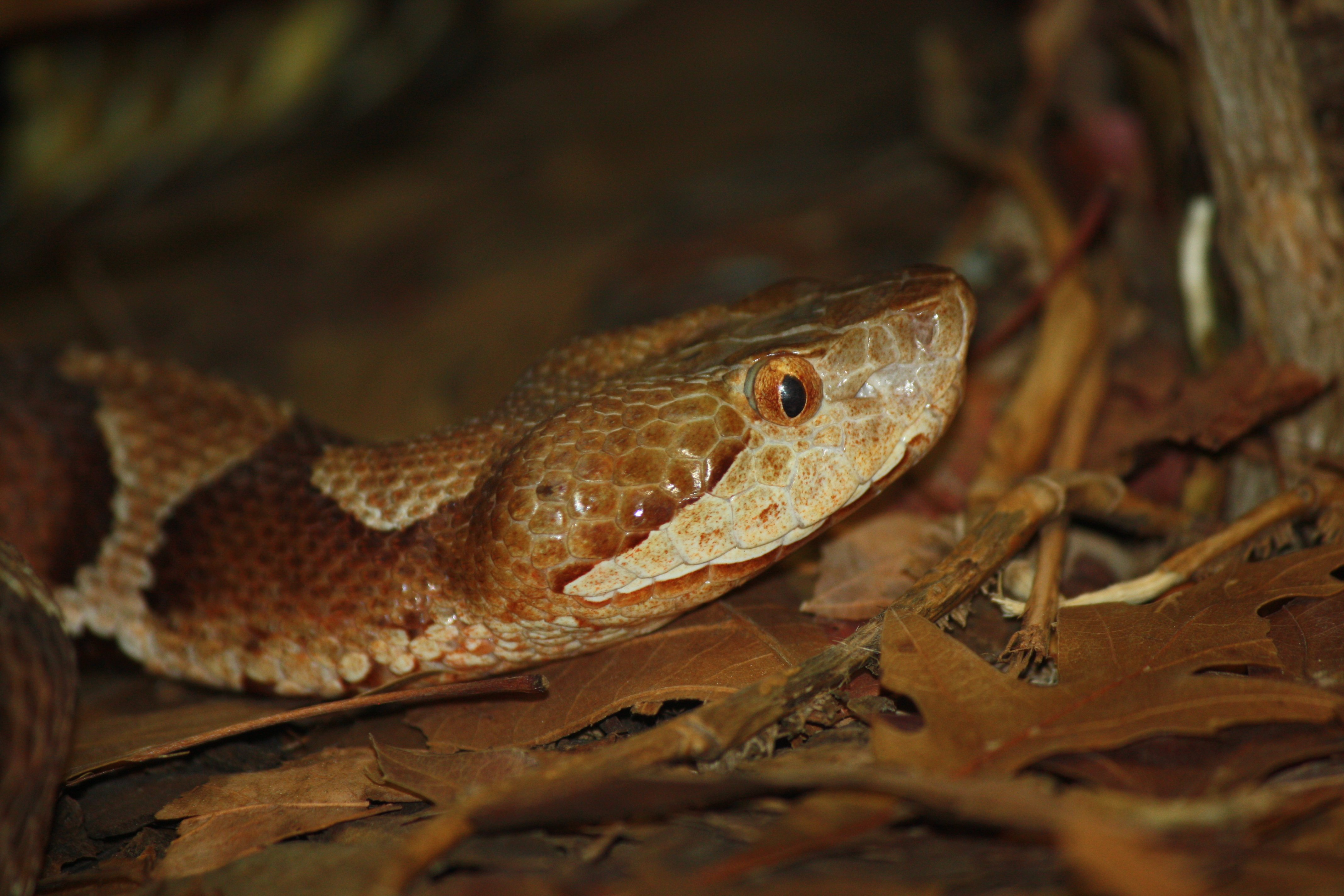 Copperhead Agkistrodon contortrix mokasen at Louisville Zoo